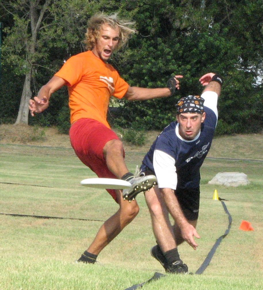 Daniel Ben-Or Trapping Moshe Gusman on the sideline at the 2007 New Year's Holylanders' HAT tournament.